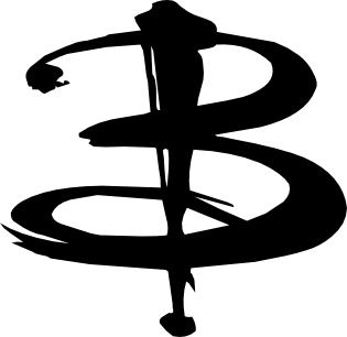 Letter B from Buffy the vampire slayer TV series logo. This PNG graphic was created with Inkscape.